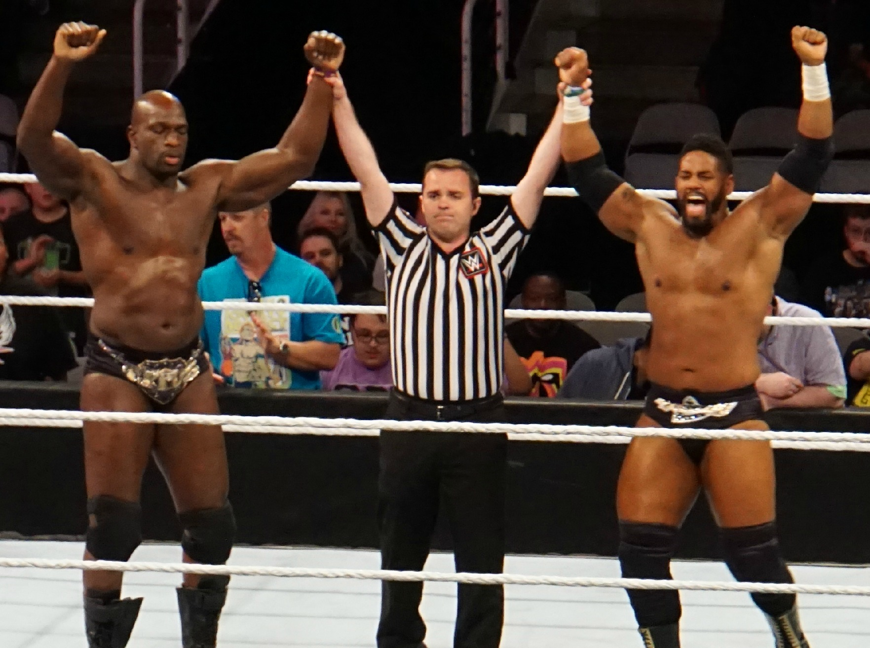 The Prime Time Players celebrating a win in March 2015.